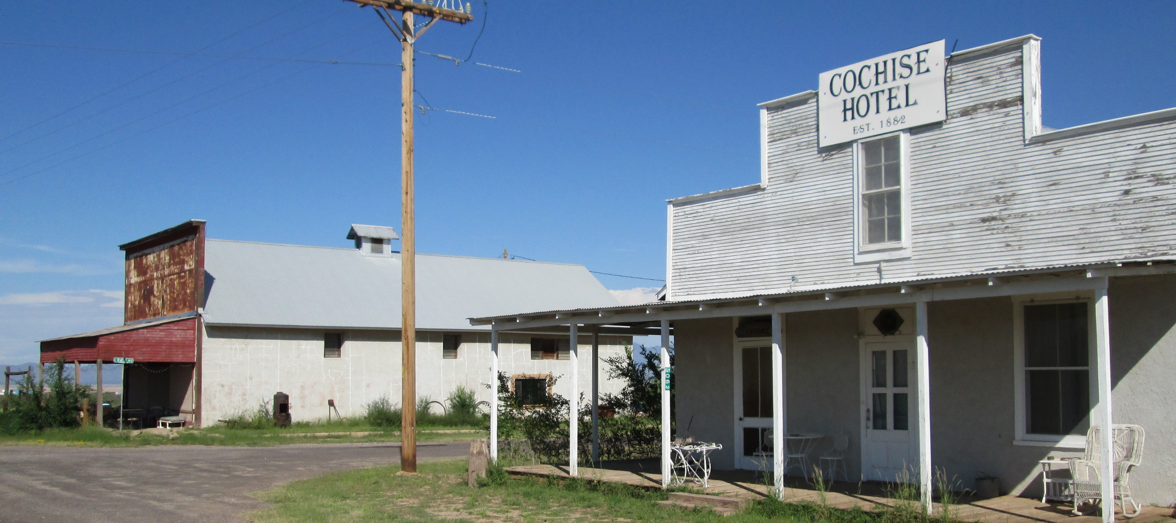 The Cochose Hotel and the Cochise Country Store (left) in the town of Cochise, Arizona.